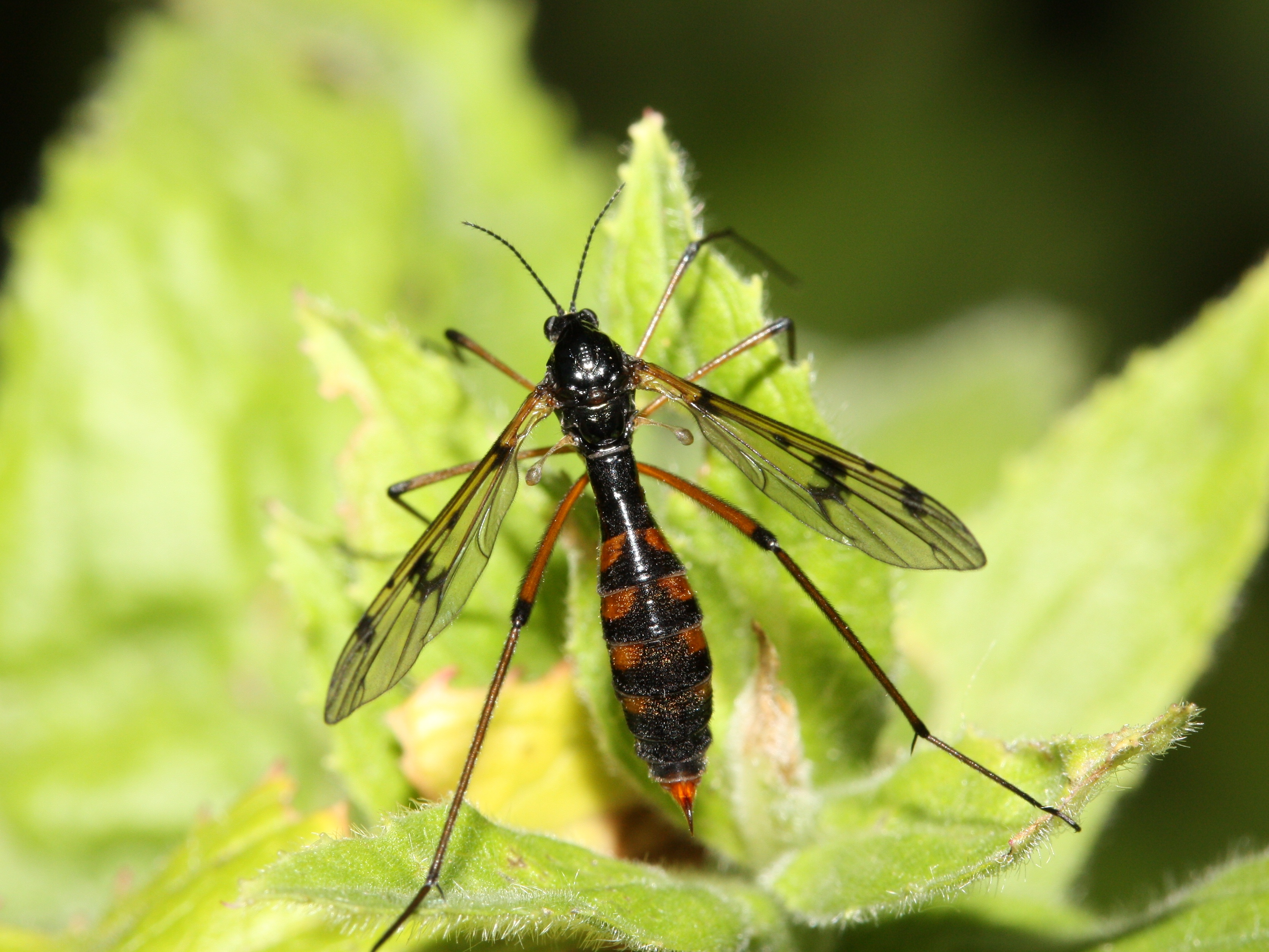 Ptychoptera contaminata